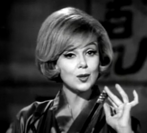 Edie Adams in a 1965-1966 commercial created for Muriel Cigars. Actress and singer Edie Adams was also Mrs. Ernie Kovacs.